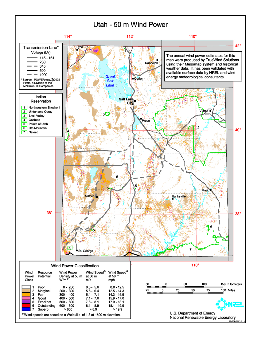 Average annual wind power distribution for Utah, 50m height above ground, also showing location of existing electrical transmission lines